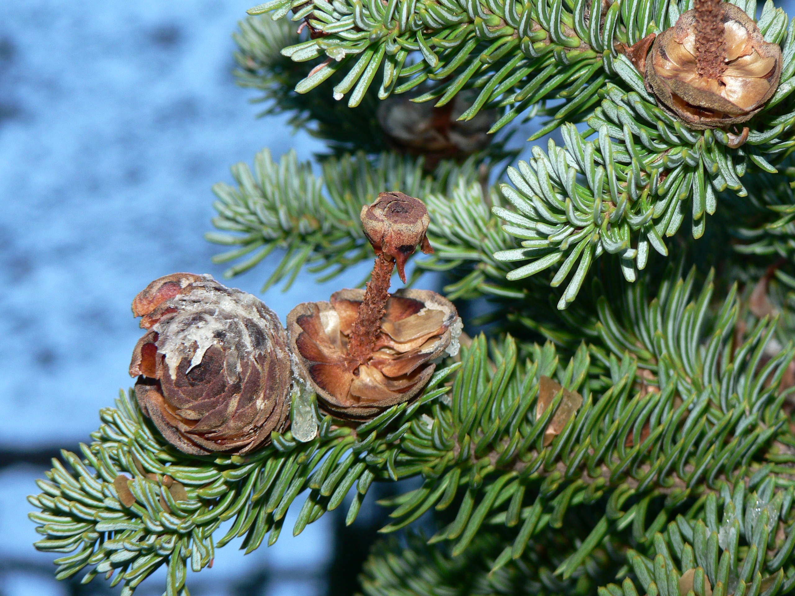 Subalpine Fir